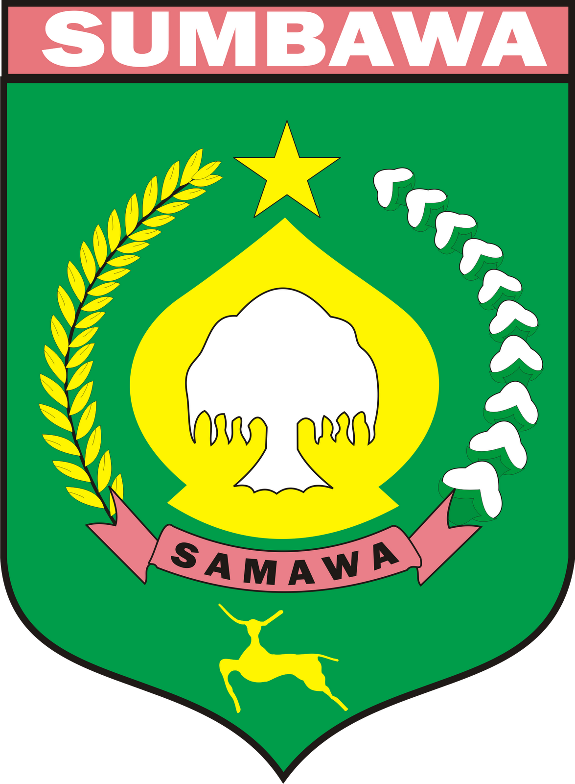 Coat of Arms (Lambang) of Regency (Kabupaten) Sumbawa, Provinsi Nusa Tenggara Barat (West Lesser Sunda Islands Province), Indonesia